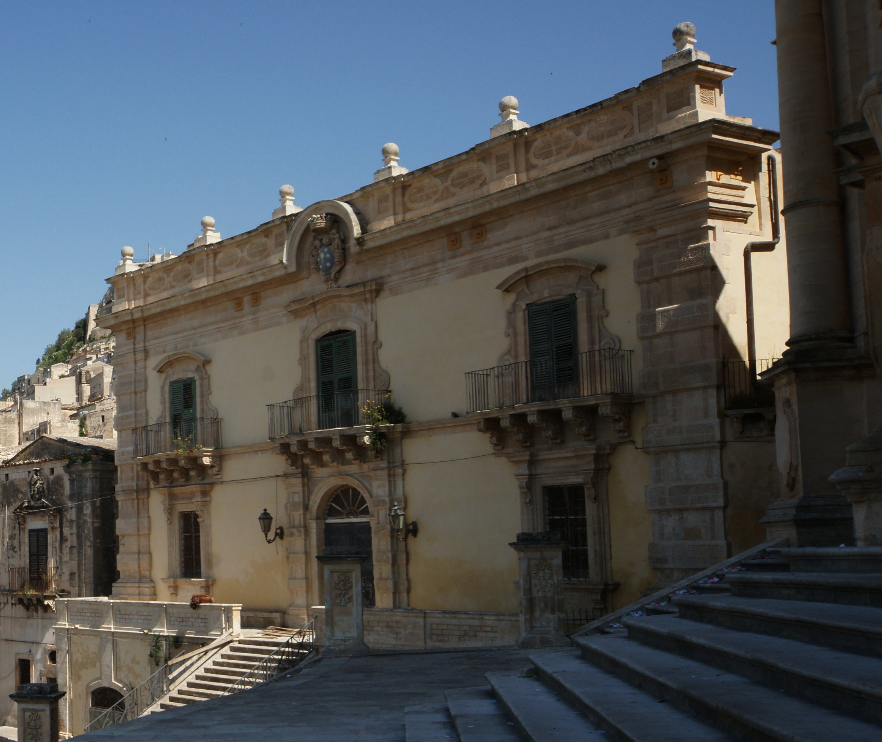 Modica: Palazzo Polara